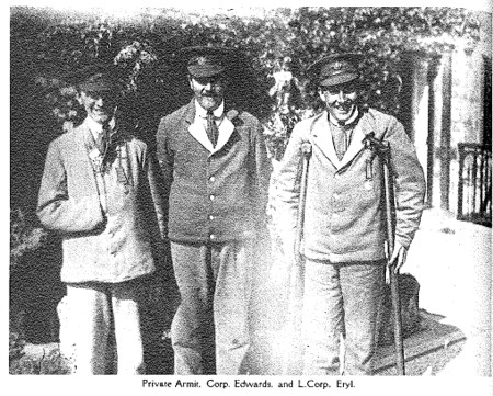 Accompanying photograph to an article in the Kingswood Bulletin